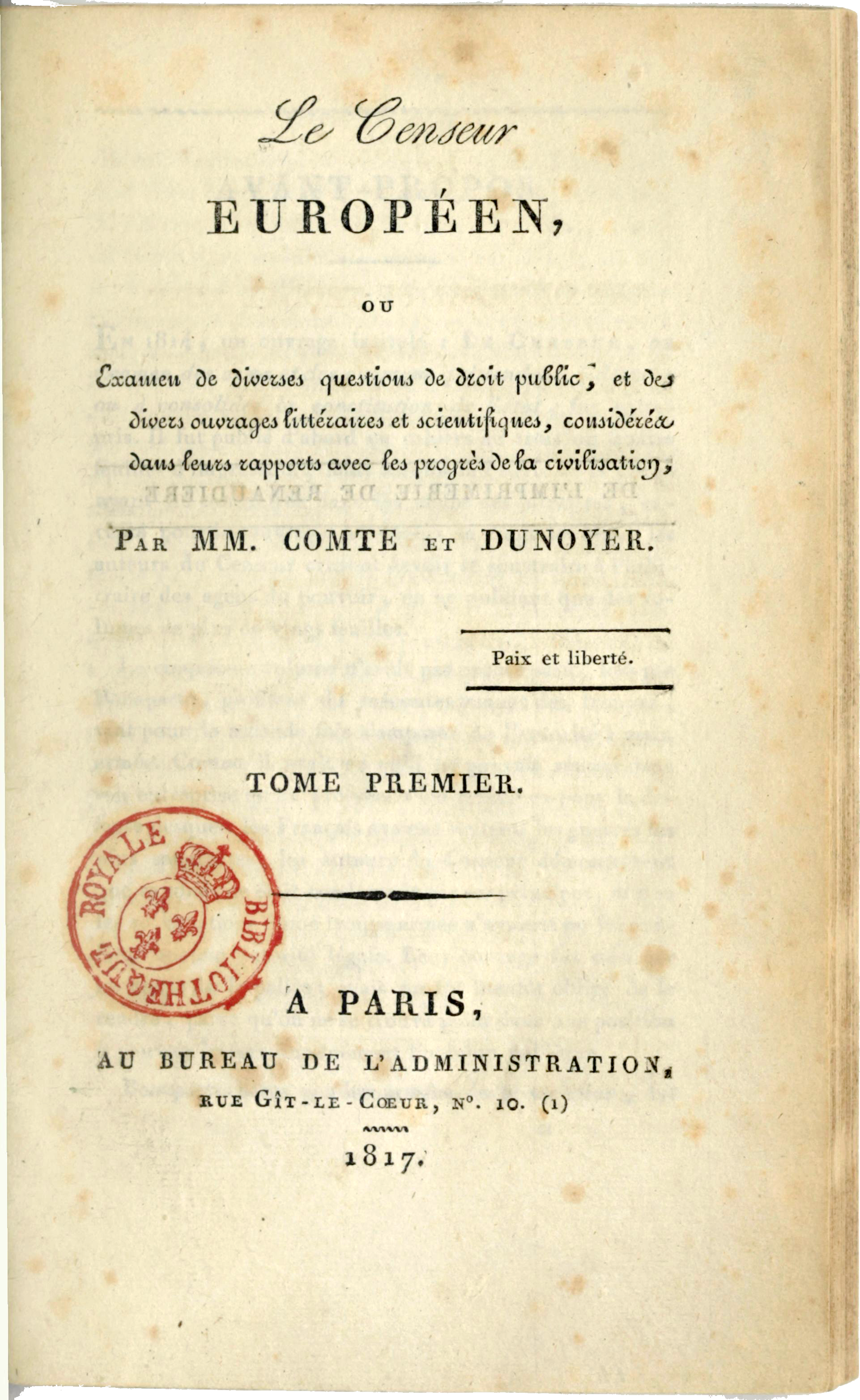 Frontispiece of Charles Dunoyer’s Le Censeur européen, ou Examen de diverses questions de droit public et de divers ouvrages littéraires et scientifiques, considérés dans leurs rapports avec les progrès de la civilisation, (Paris) : 1817.